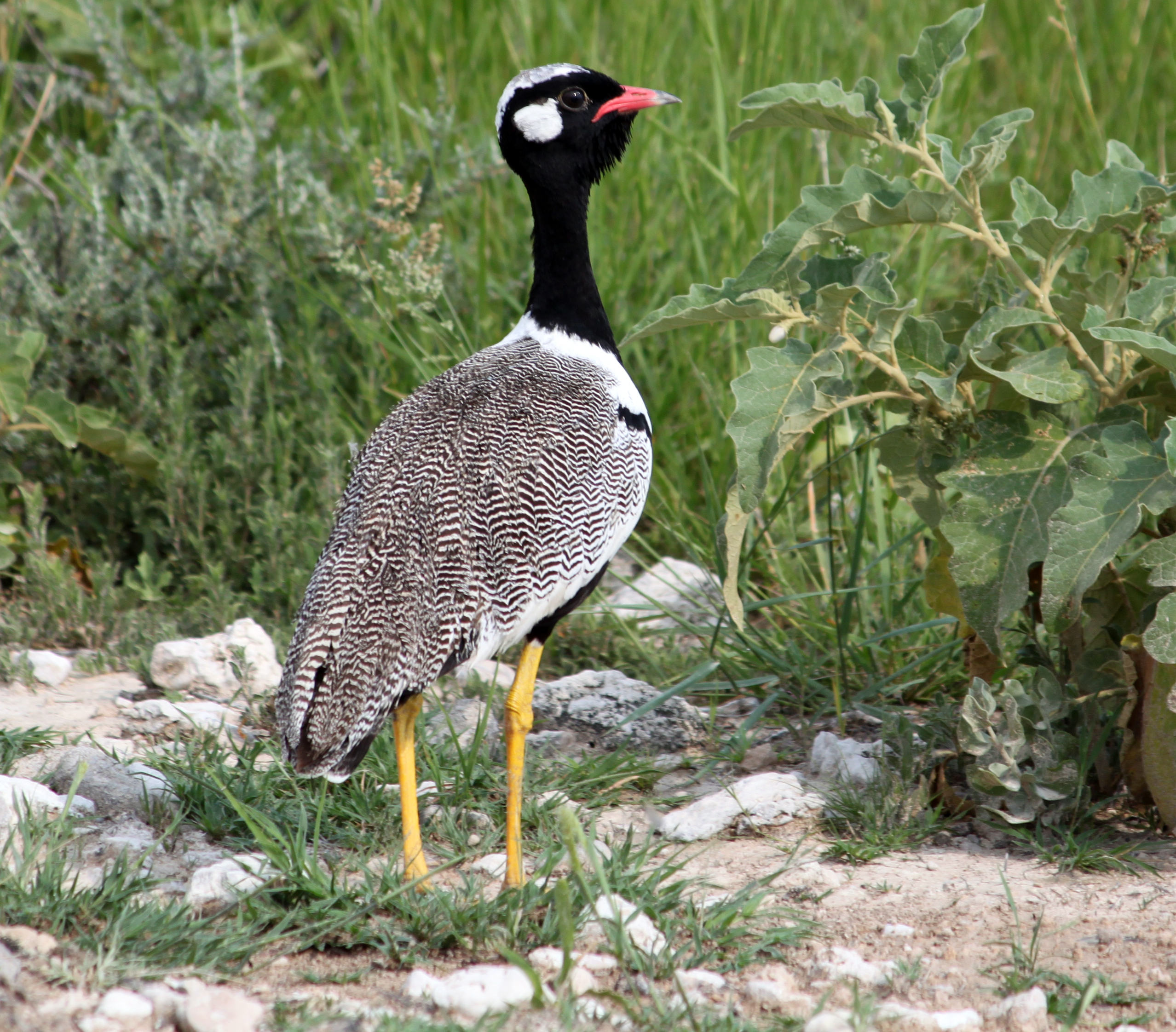 Black Bustard in Etosha National Park, Namibia